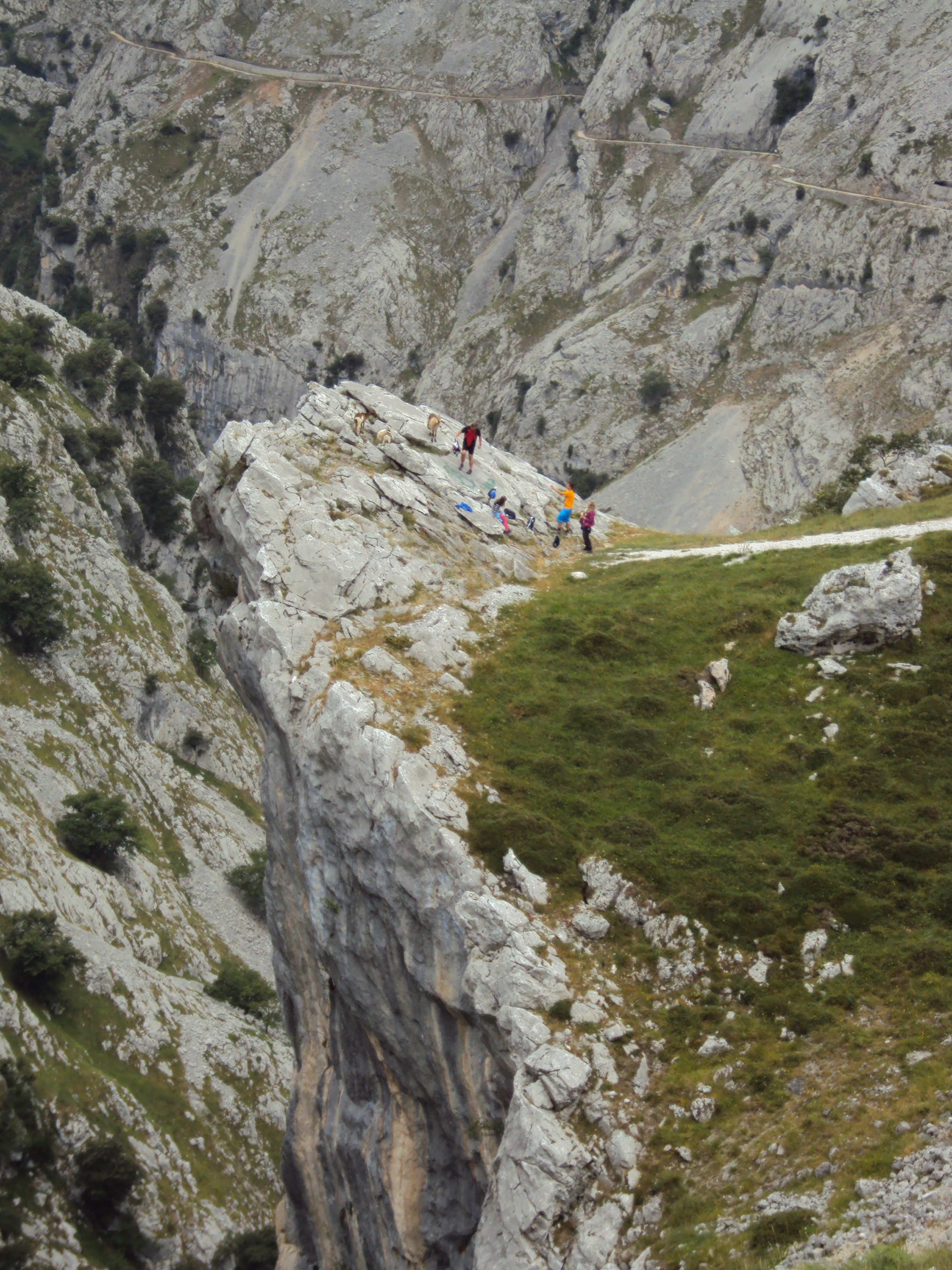 This is a photography of a Site of Community Importance in Spain with the ID: ES0000003. Natura2000 entry, EEA entry